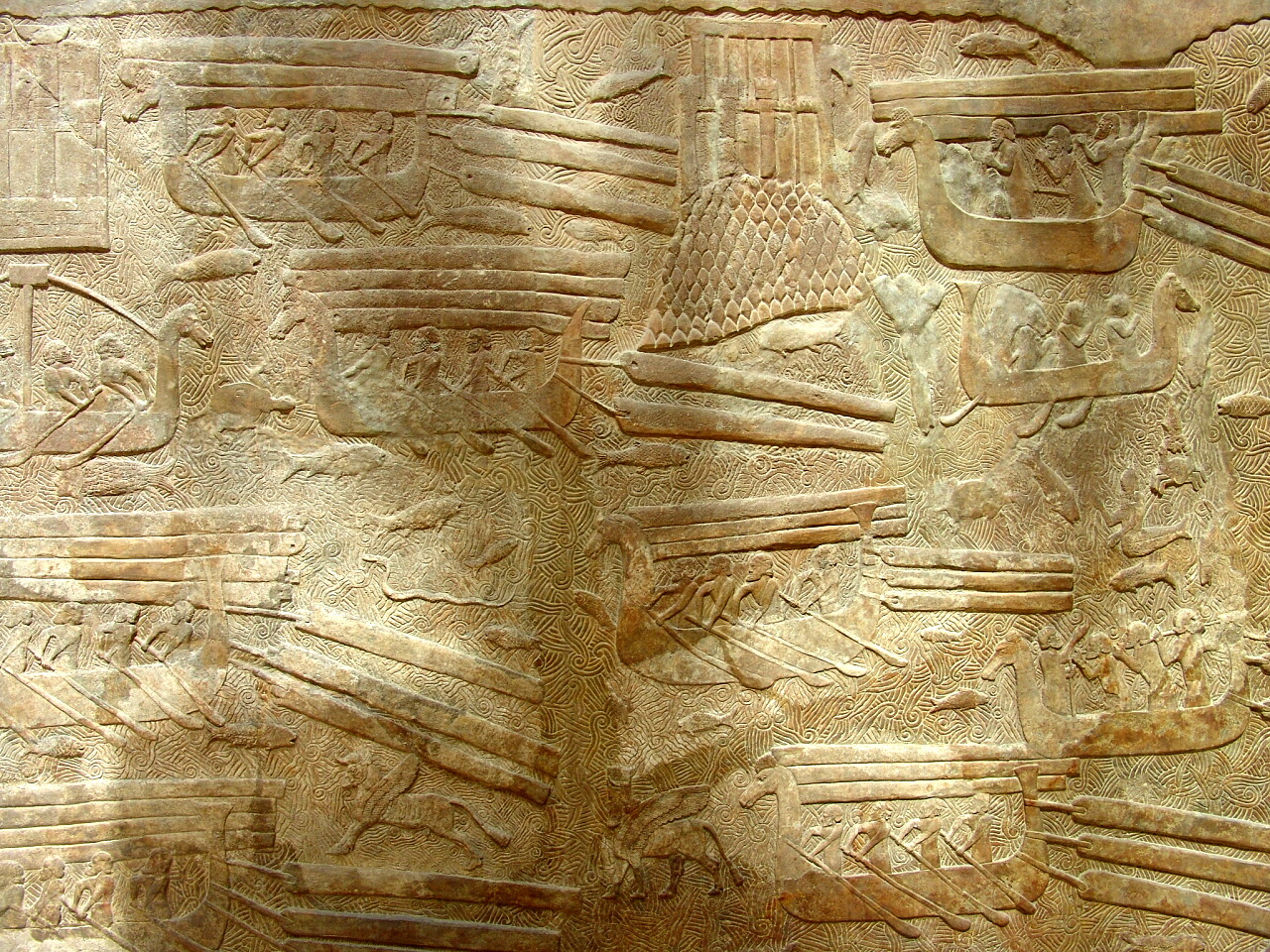 Phoenician ships (hippoi). Relief from the palace of Sargon II at Dur-Sharrukin (now Khorsabad). Louvre